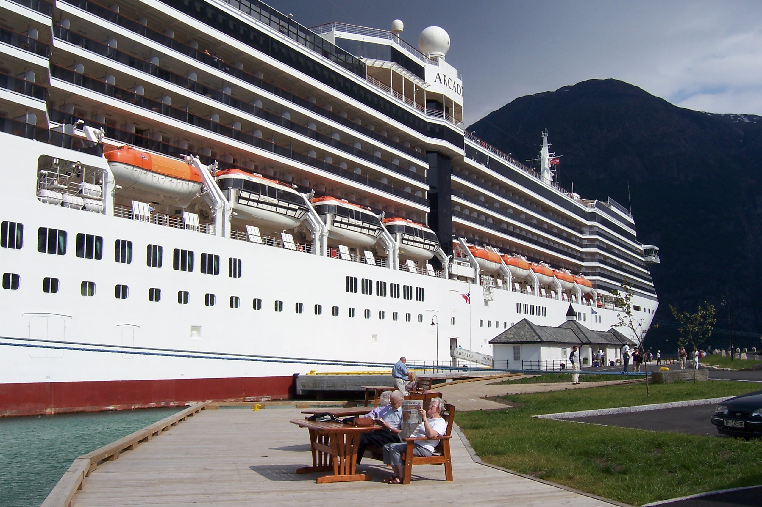 Arcadia in Eijford Norway June 2006 Author John Beniston (palmiped)